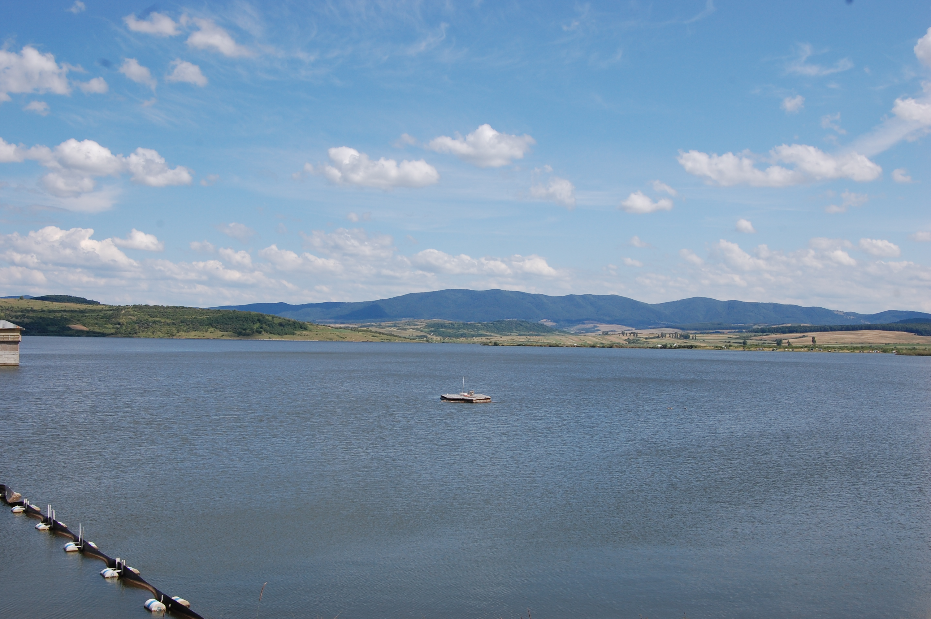 Water reservoir near Varsolt (Romania)